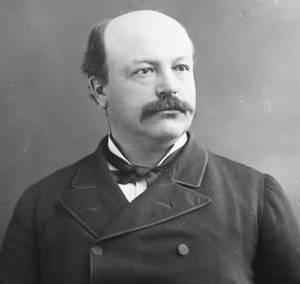 Hon. Sir Alexandree Lacoste, Q.C. (Senator) b. Jan. 12, 1842 - d. 1923